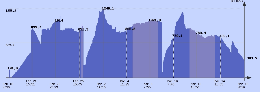 SLinCA@Home - Last 4 weeks performance